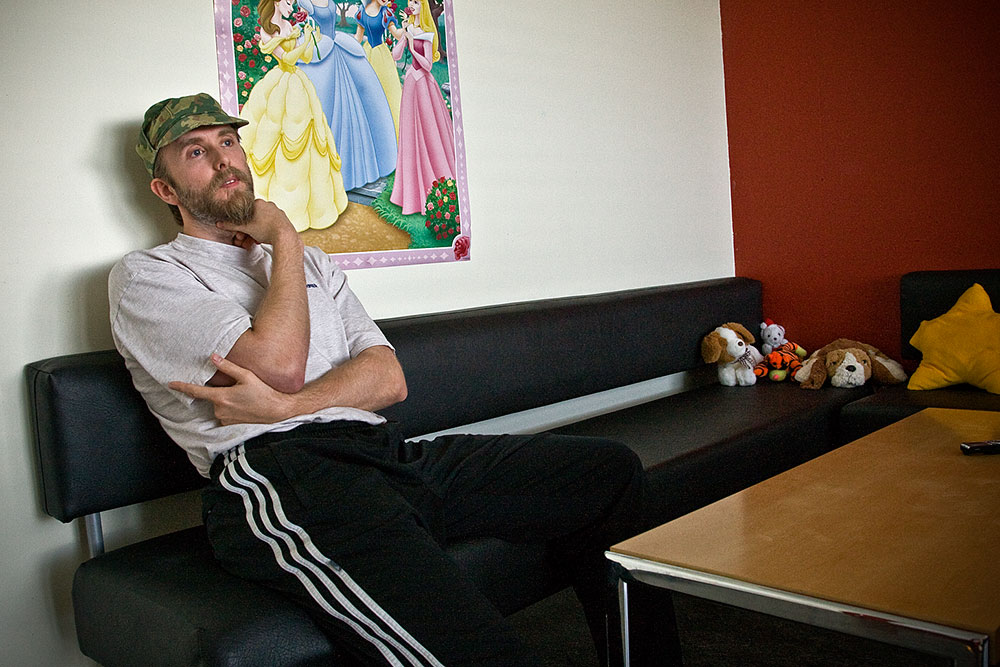 Varg Vikernes in prison